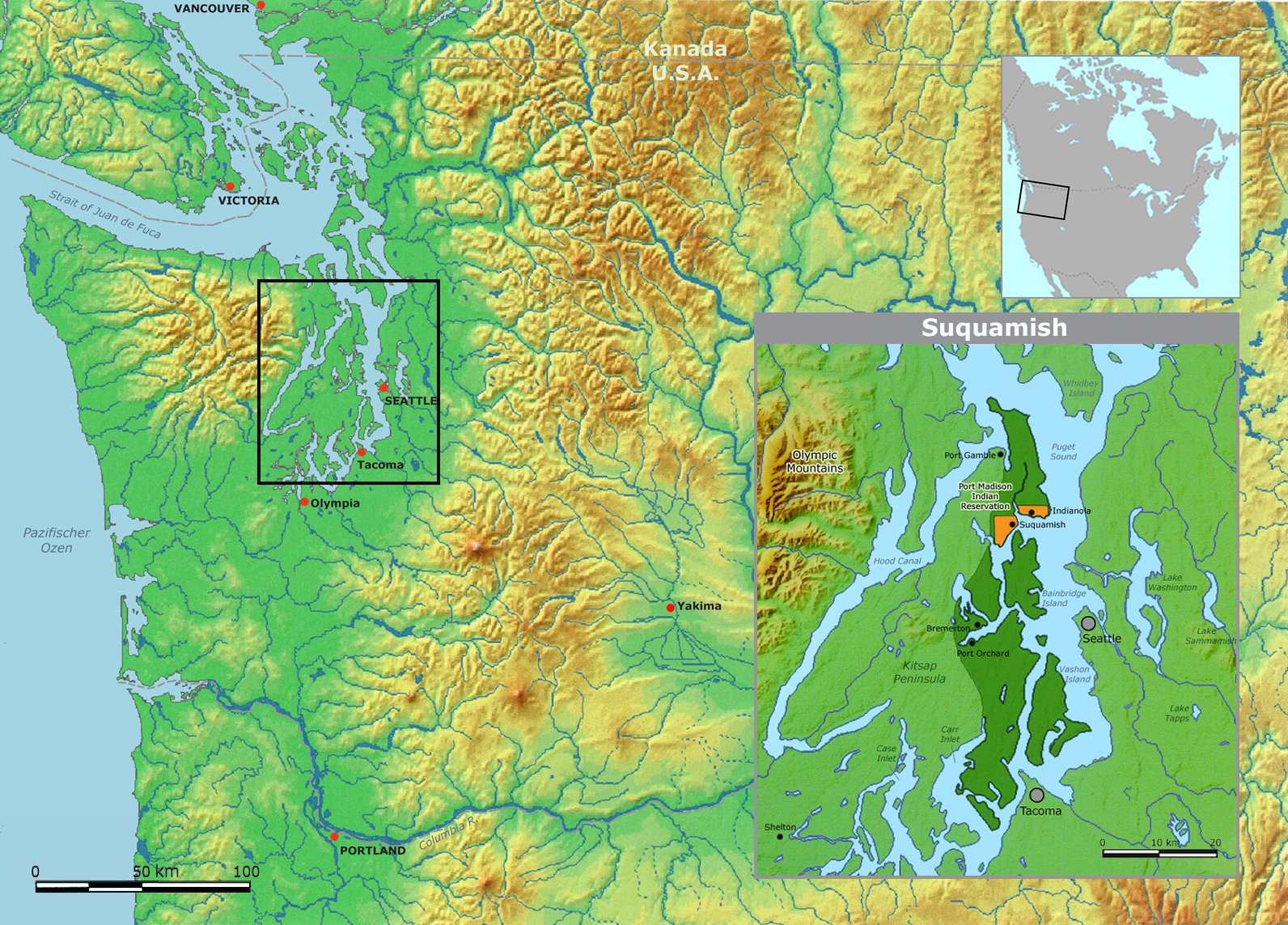 Map of traditional Suquamish tribal territory and present-day reservation